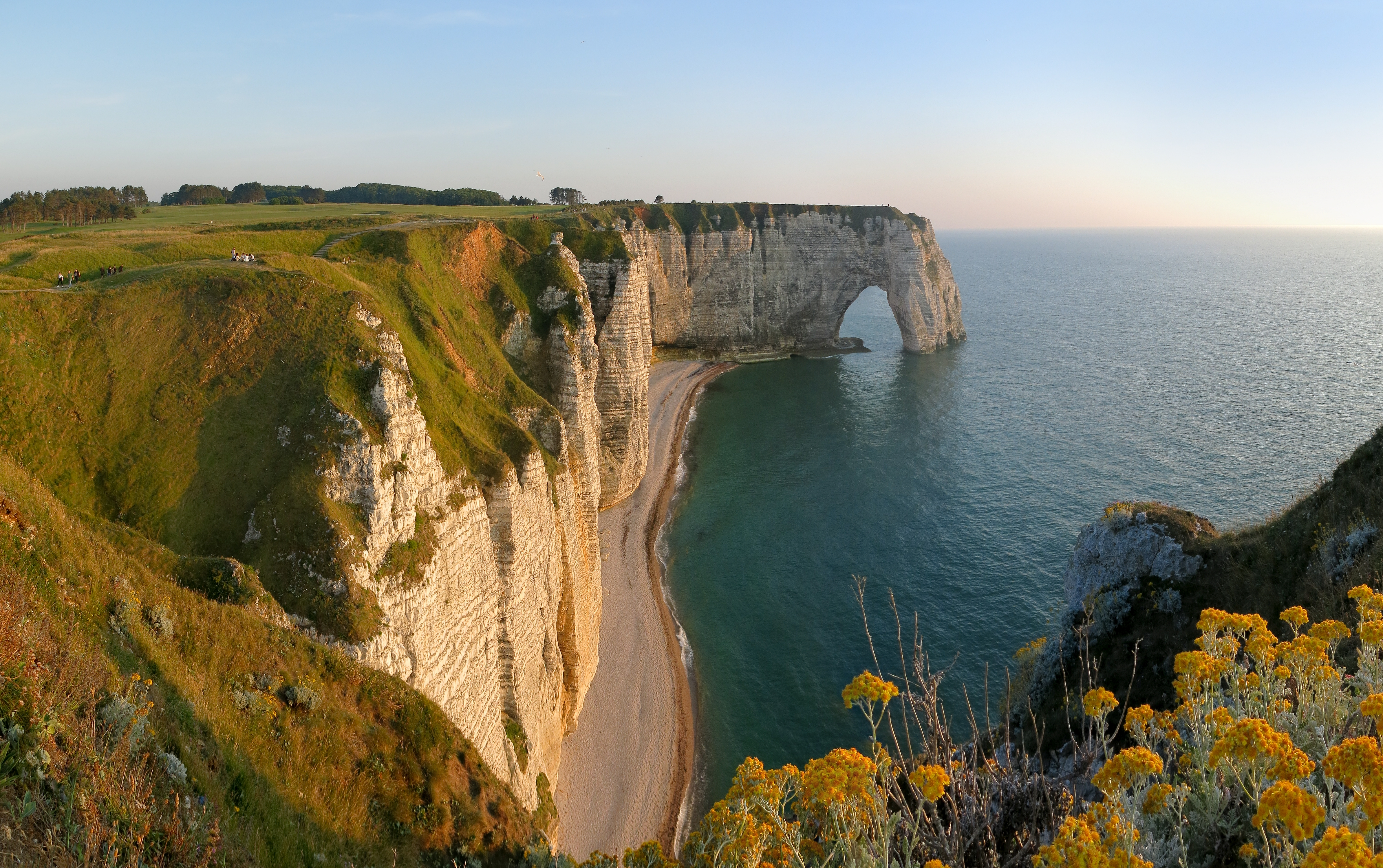 Natural arch Manneporte near Étretat, Normandy, France. In the foreground Jacobaea maritima